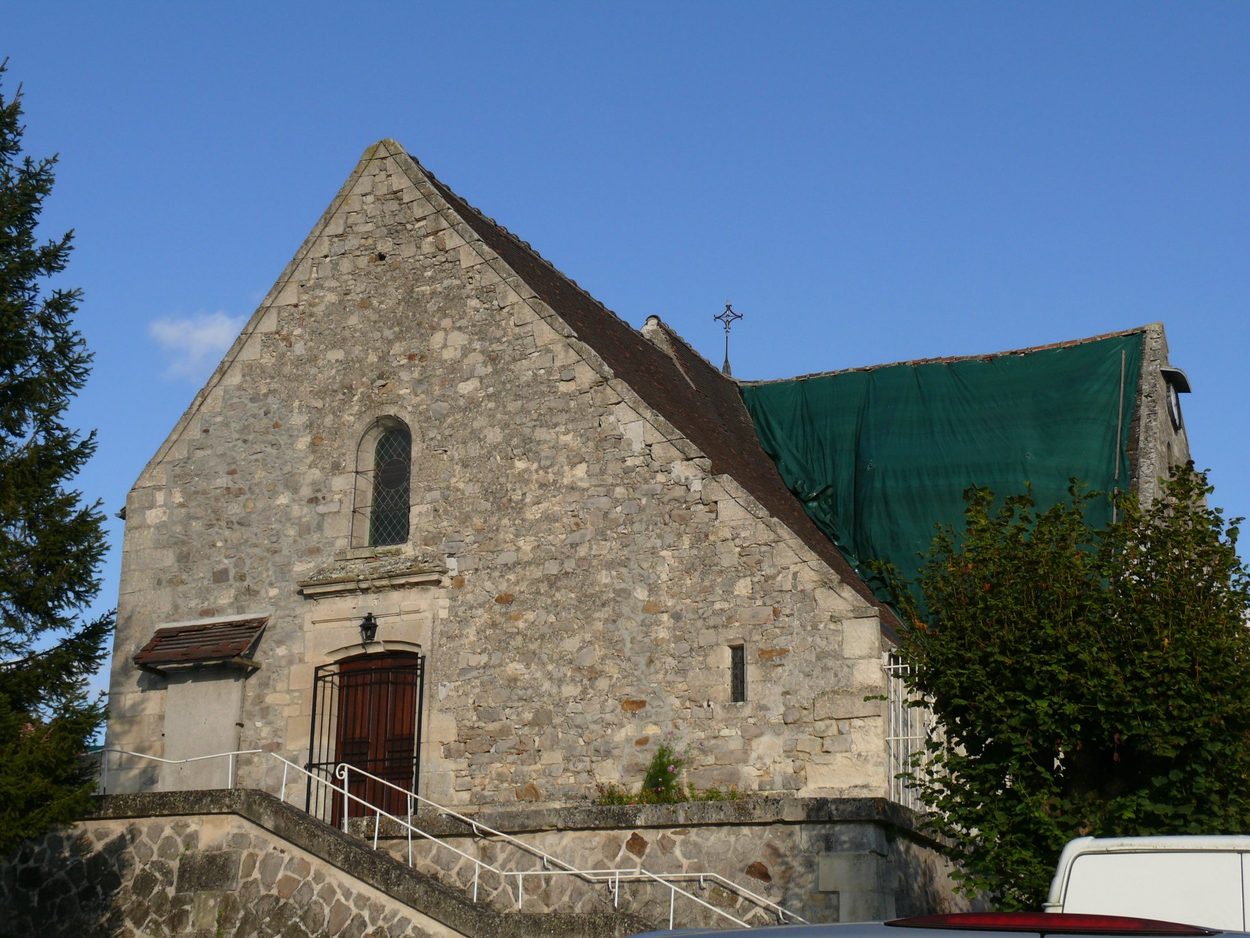 Saint-Martin's church of Ormoy-Villers (Oise, Picardie, France).